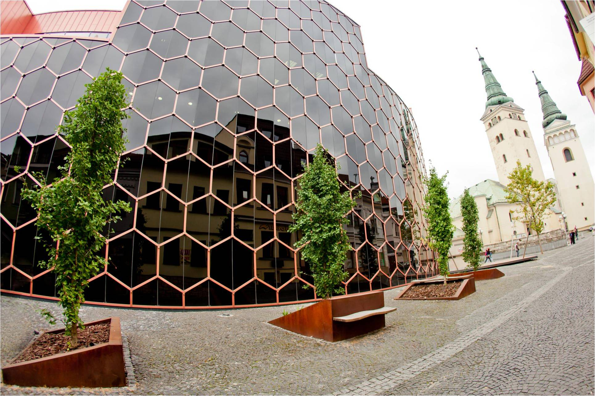 Public place: Mirage Shopping Centre Žilina, Slovakia